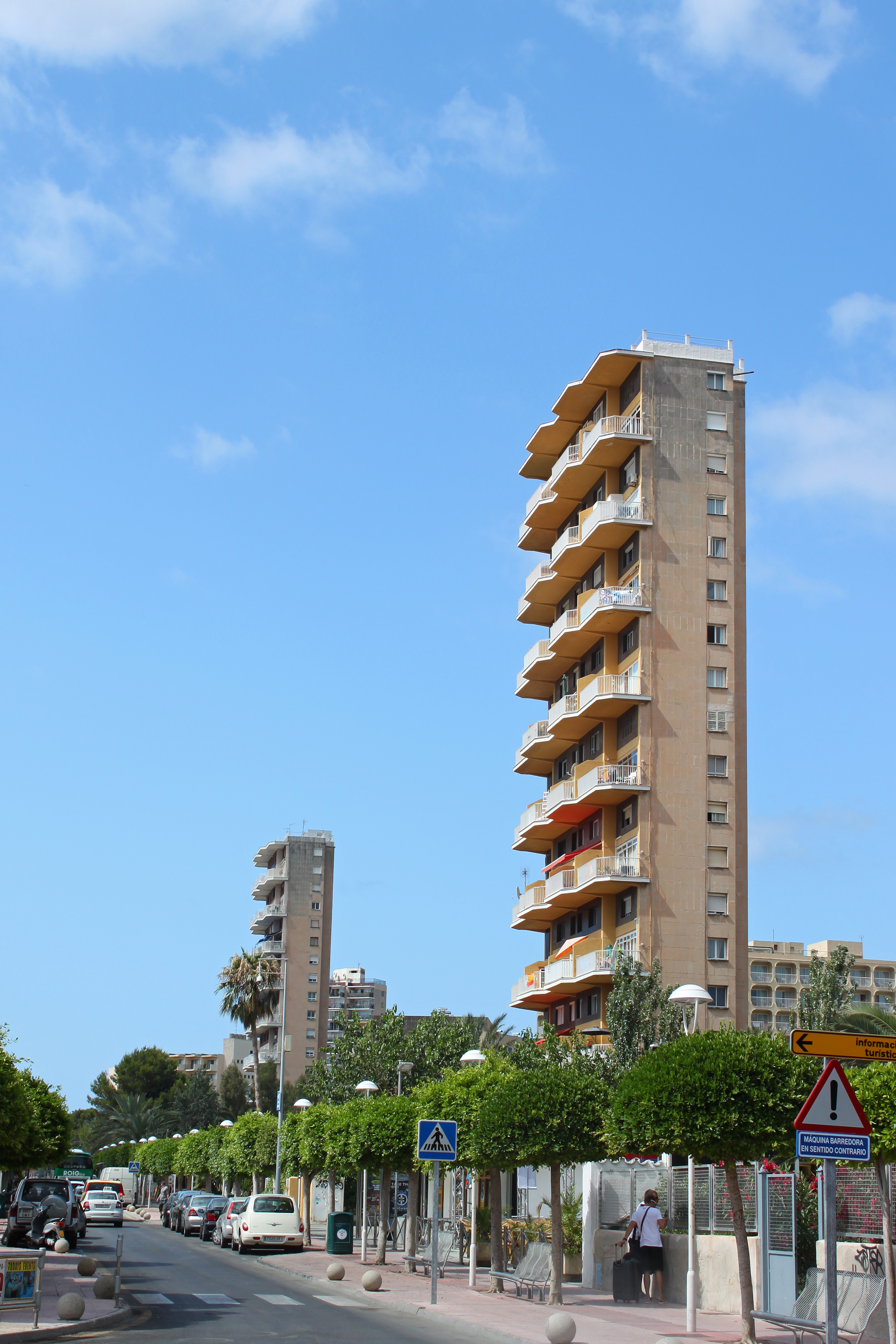 Magaluf, Mallorca, 2010